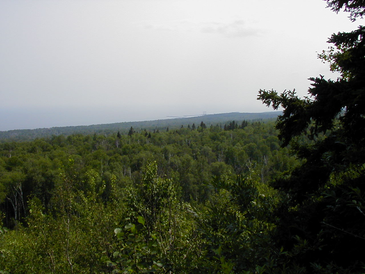 Taken by Pete Nelson hiking on the Superior Hiking Trail in Temperance River State Park. Looking from the bluff on the way to Cross River. To get to this point from the Temperance, there is a climb of 400+ feet in less than a quarter mile - but the view was well worth it!